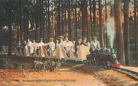 Postcard of White City Amusement Park, Worcester, Mass